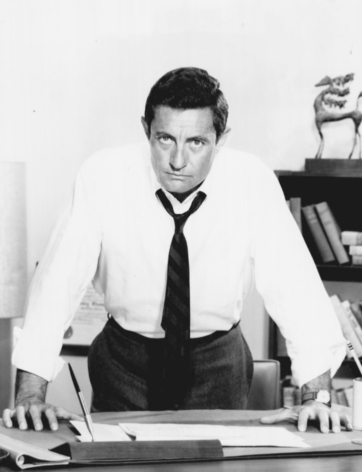 Photo of Paul Richards from the television program Breaking Point.